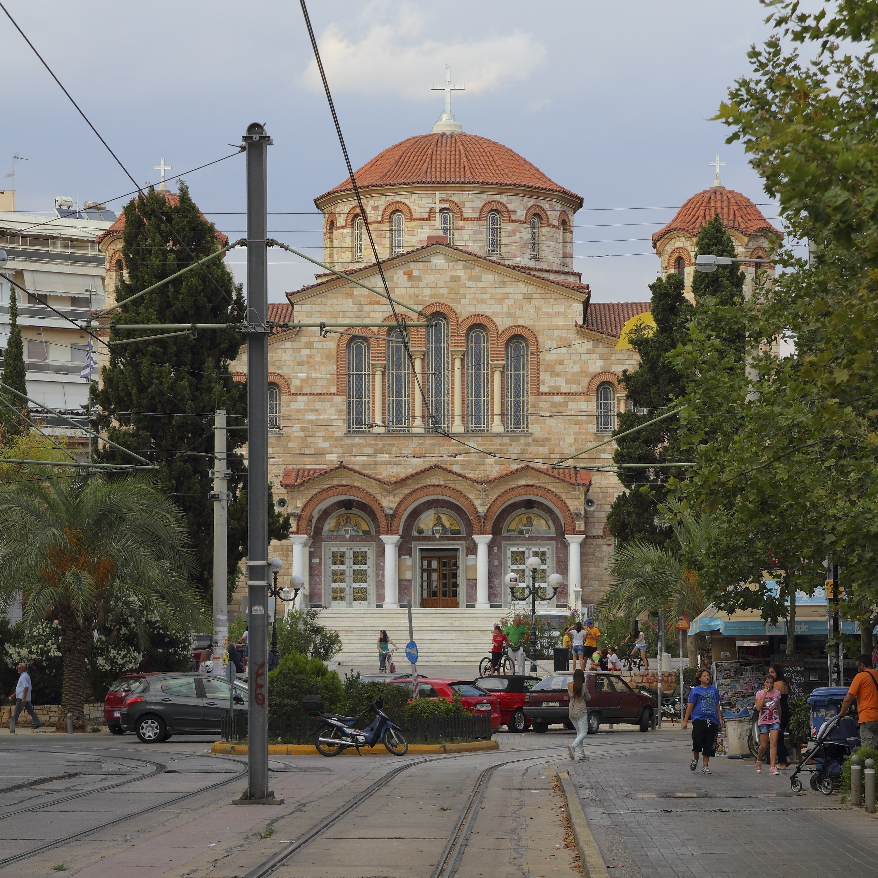 Church of Our Lady in Paleo Faliro (Attica, Greece)